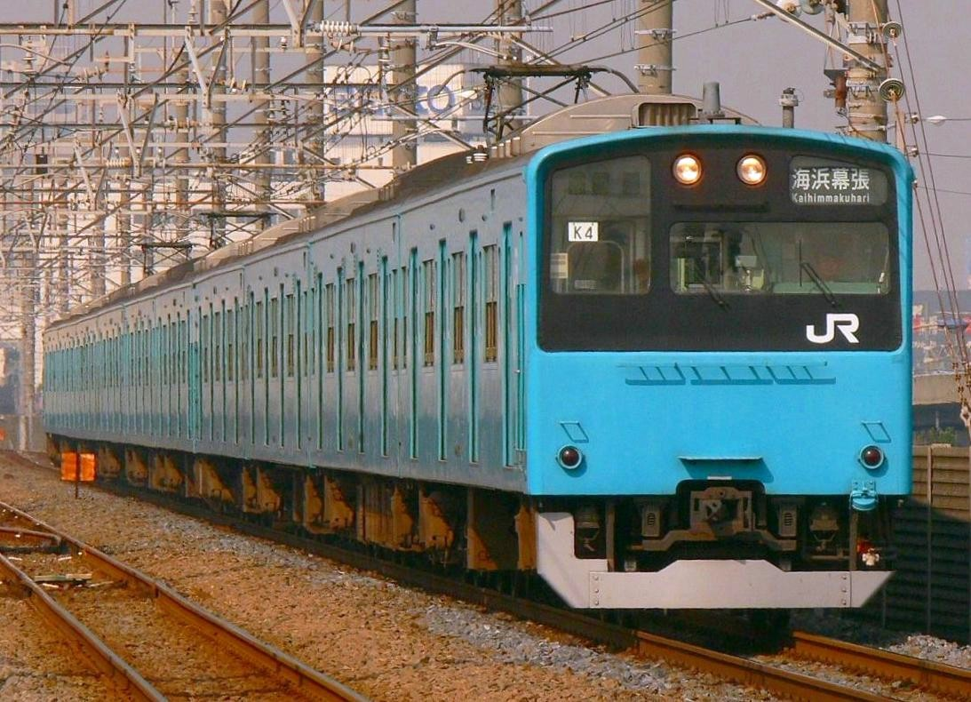 JR East 201 series EMU set K4 approaching Shin-Narashino Station on the Keiyo Line in Chiba Prefecture, Japan